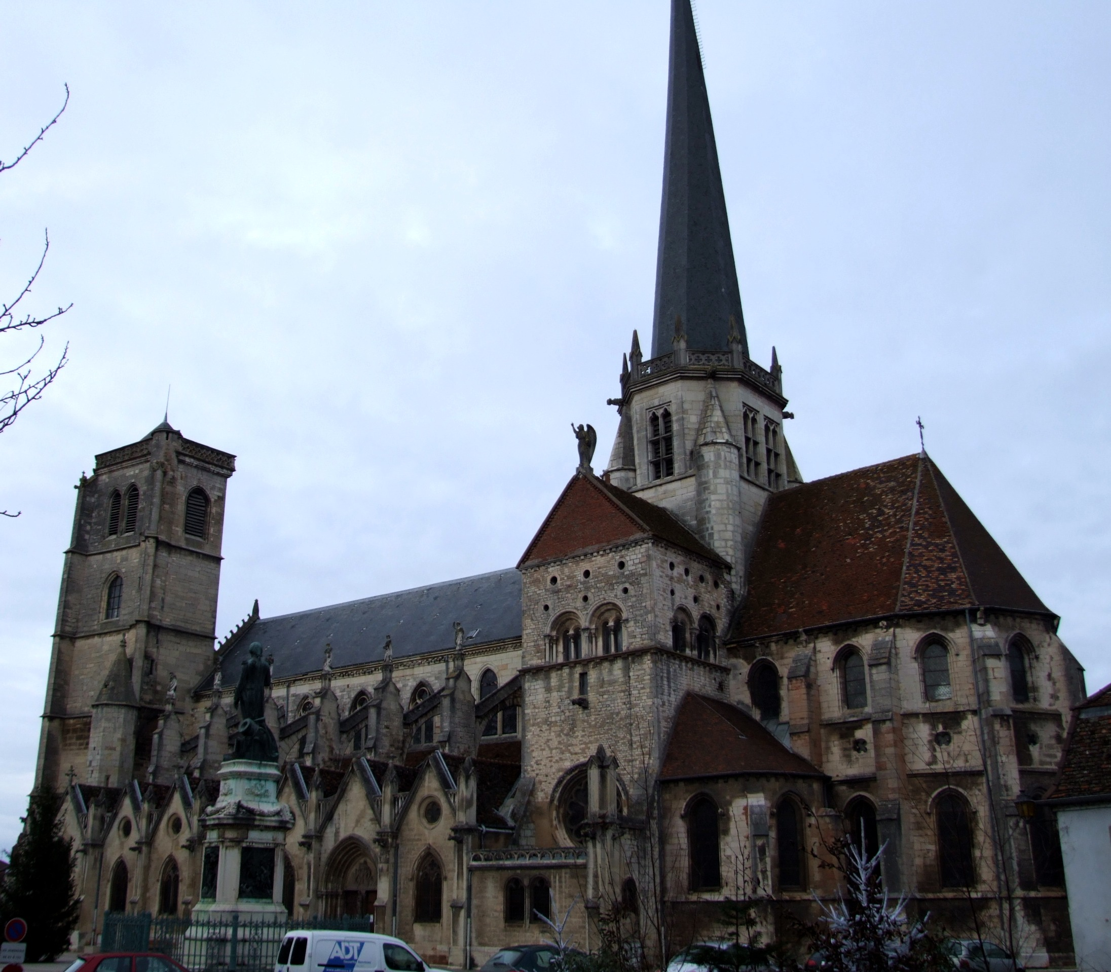 Auxonne, Burgundy, FRANCE